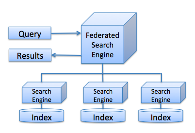 Federated Search Engine Diagram